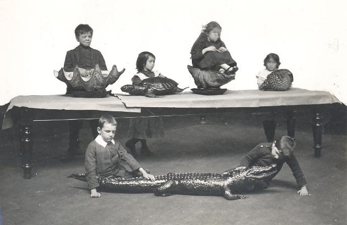 Blind visitors to Sunderland Museum are handling the reptile specimens, including the crocodile and shells. “To them, their fingers are eyes” From 1913, John Alfred Charlton Deas, a former curator at Sunderland Museum, organised several handling sessions for the blind, first offering an invitation to the children from the Sunderland Council Blind School, to handle a few of the collections at Sunderland Museum, which was ‘eagerly accepted’. Ref: TWCMS: K13597(2) view the set (Copyright) We're happy for you to share this digital image within the spirit of The Commons. Please cite 'Tyne & Wear Archives & Museums' when reusing. Certain restrictions on high quality reproductions and commercial use of the original physical version apply though; if you're unsure - for image licensing enquiries please follow this link